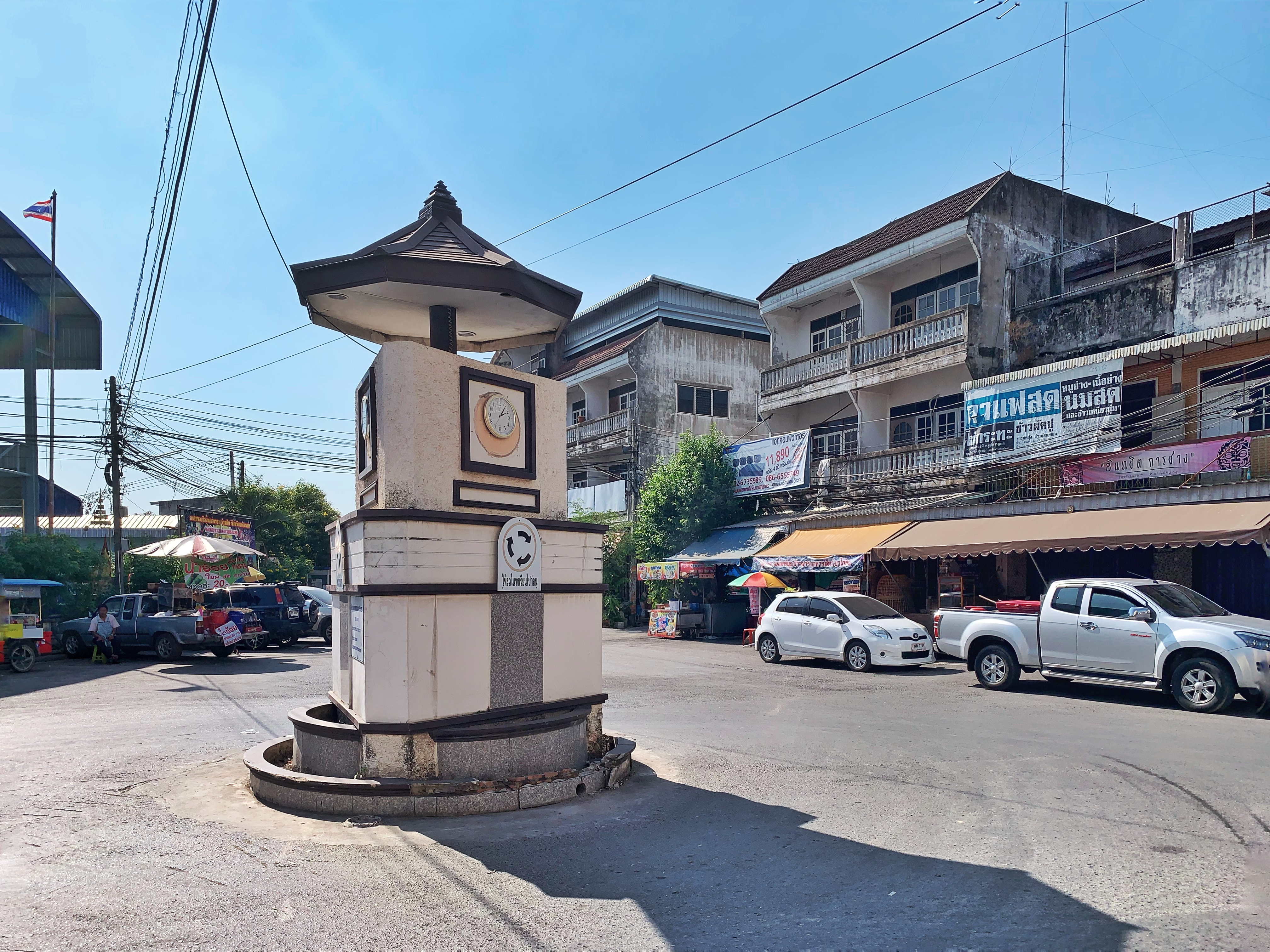 Roundabout in Nakhon Nayok city centre